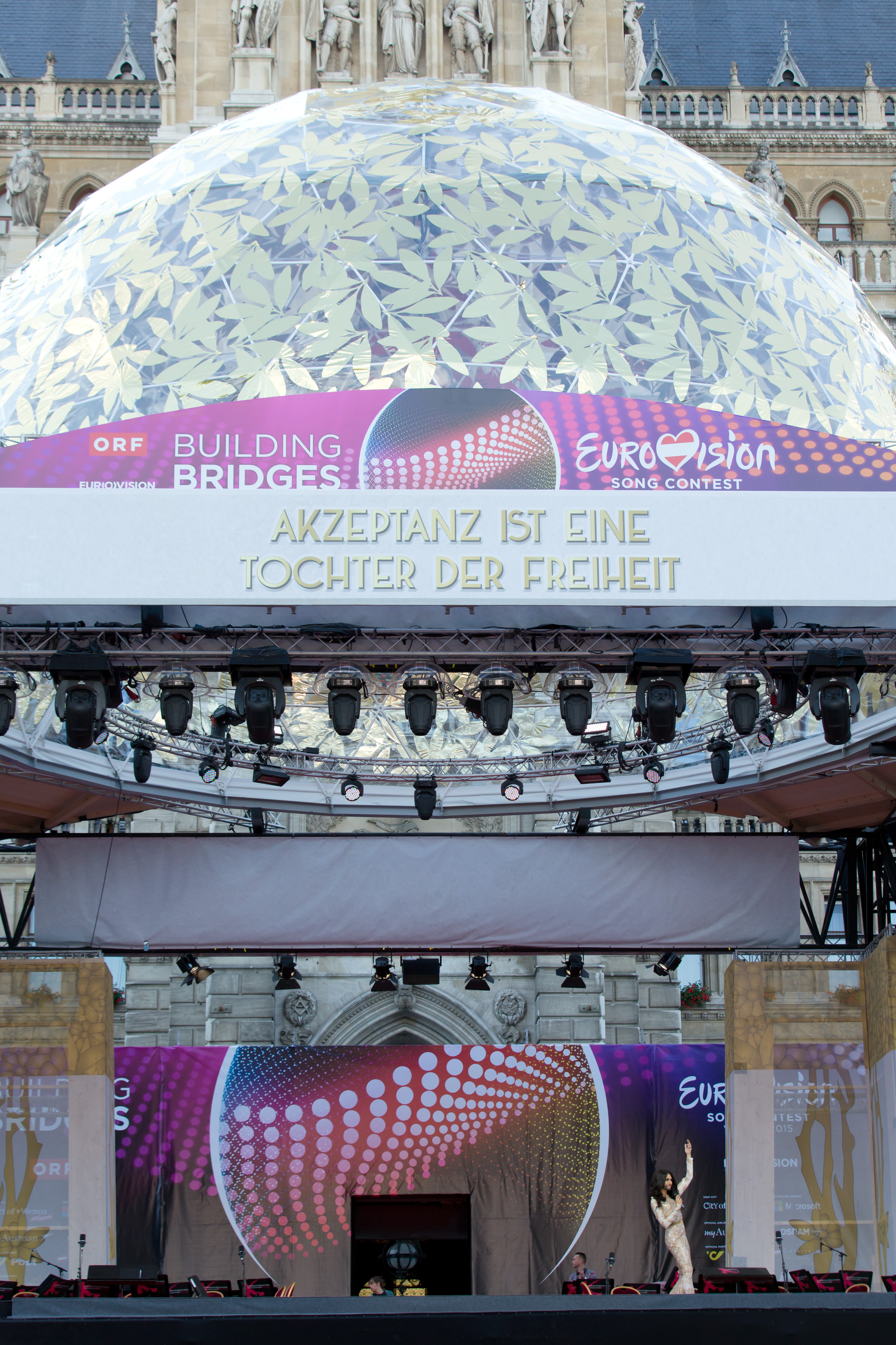 Eurovision Song Contest 2015 in Vienna, Austria: The stage, adapted from Life Ball, of the Eurovision Village on Rathausplatz with the wax figure of Conchita Wurst from Madame Tussauds.